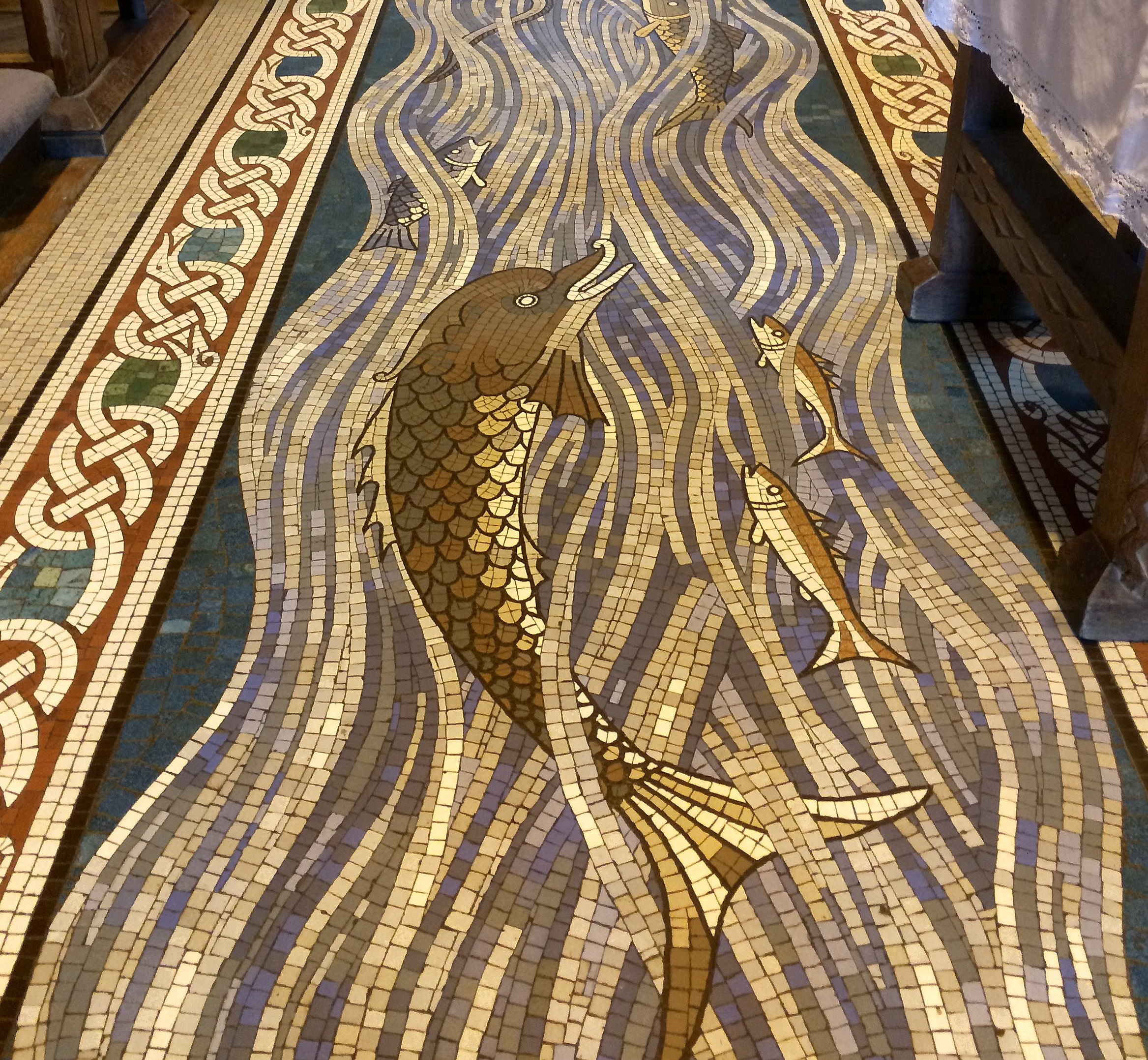 Cork, Honan Chapel. Wikidata has entry Q5892033 with data related to this item.